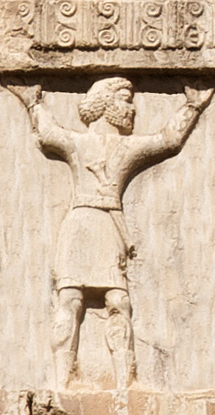 Xerxes I tomb Assyrian soldier circa 470 BCE